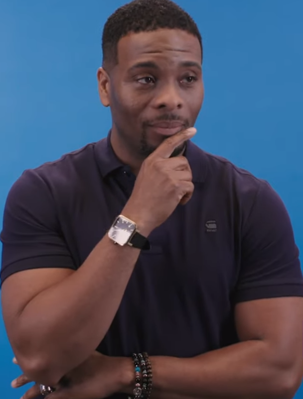 Beyoncé or SpongeBob? Kanye or TMNT? Join Kel Mitchell, Nathan Kress, Devon Werkheiser, Josh Server, Meagan Good, James Maslow, Daniella Monet, and Anthony Padilla as they guess if quotes are from their favorite cartoon characters or musical superstars!